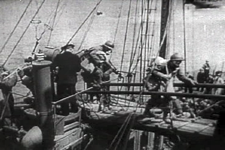 French troops rescued by a British ship at Dunkirk (France, 1940). Screenshot taken from the 1943 United States Army propaganda film Divide and Conquer (Why We Fight #3) directed by Frank Capra and partially based on, news archives, animations, restaged scenes and captured propaganda material from both sides.